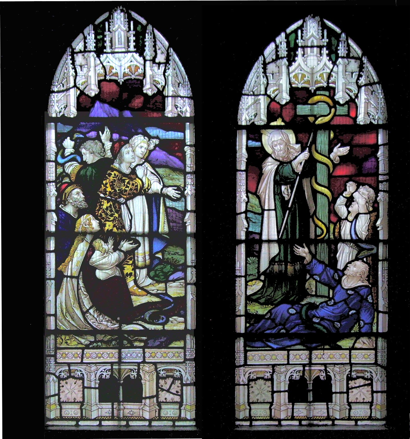 Taken at St Marks Church, Gillingham, by Mike Young